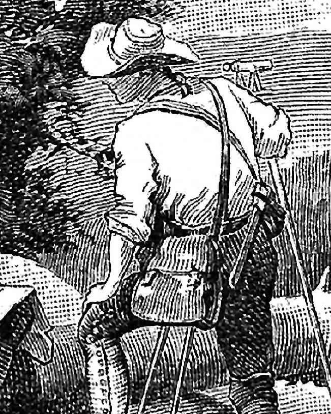 Cropped illustration of Jeremiah Dixon surveying the Mason–Dixon line, circa 1763–1768. (Neither Mason nor Dixon are clearly labeled as such, but this figure is positioned at right. The illustration was created long after they were both dead, so the image is more a representation than an exact likeness anyway.)